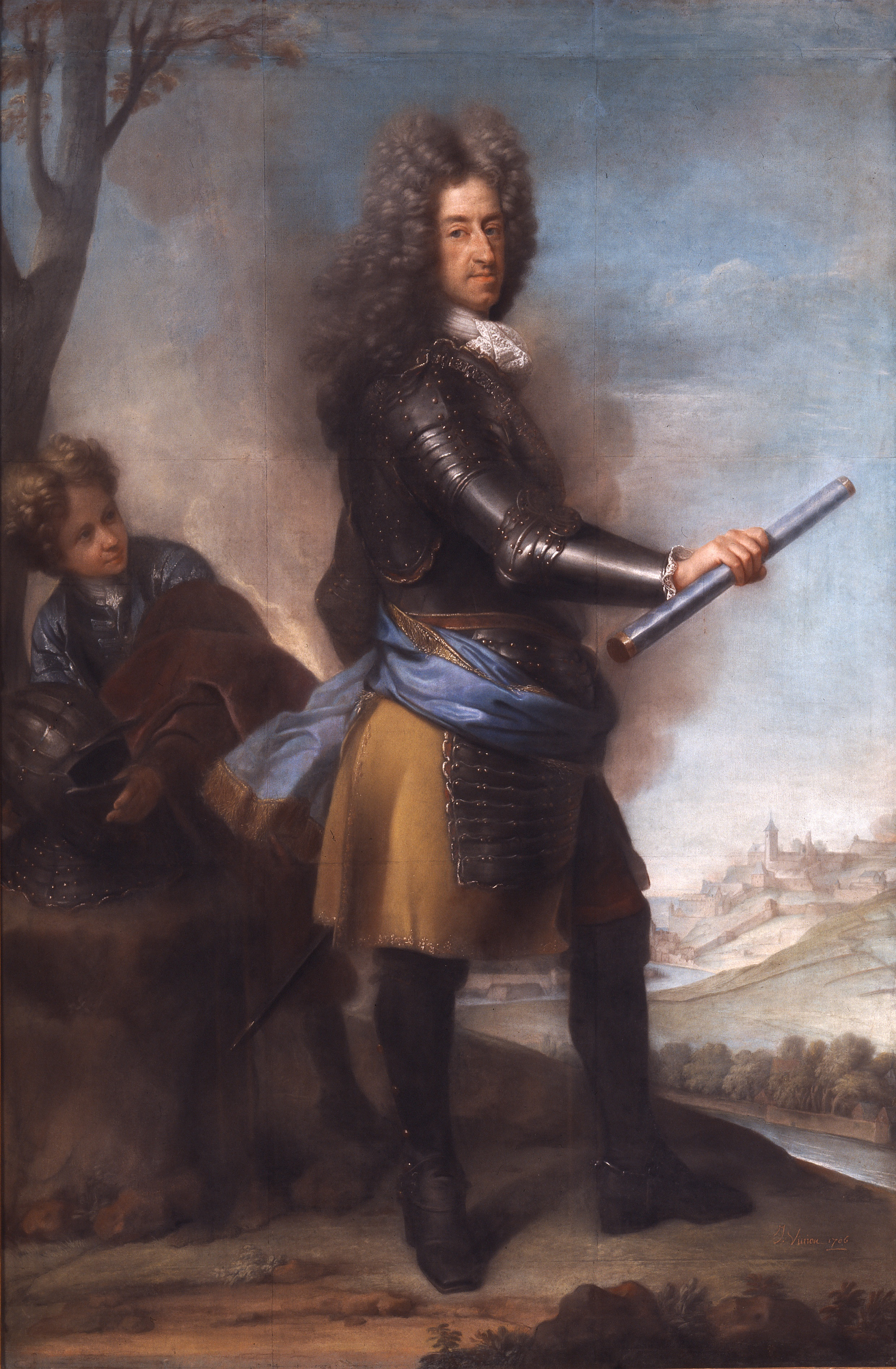 Portrait of Maximilian II Emanuel, Elector of Bavaria (1662-1726)